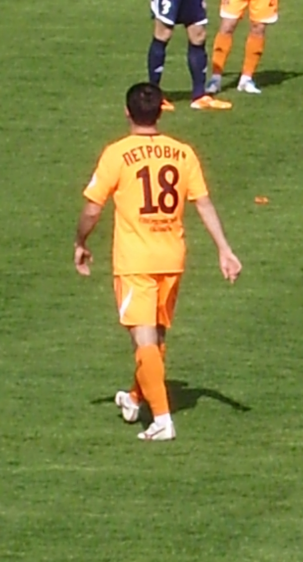 Branimir Petrović